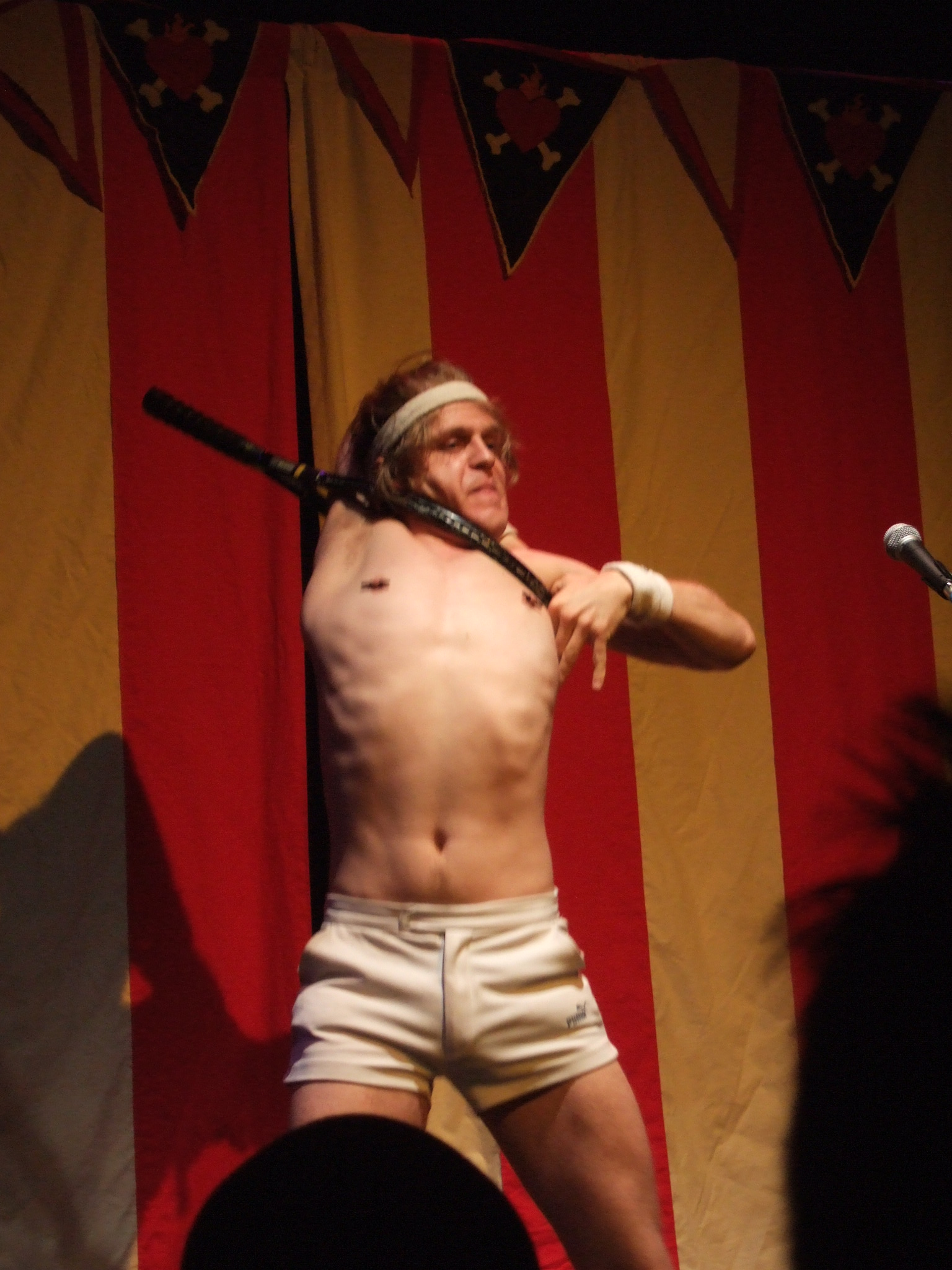 Captain Frodo performing his contortionism act.